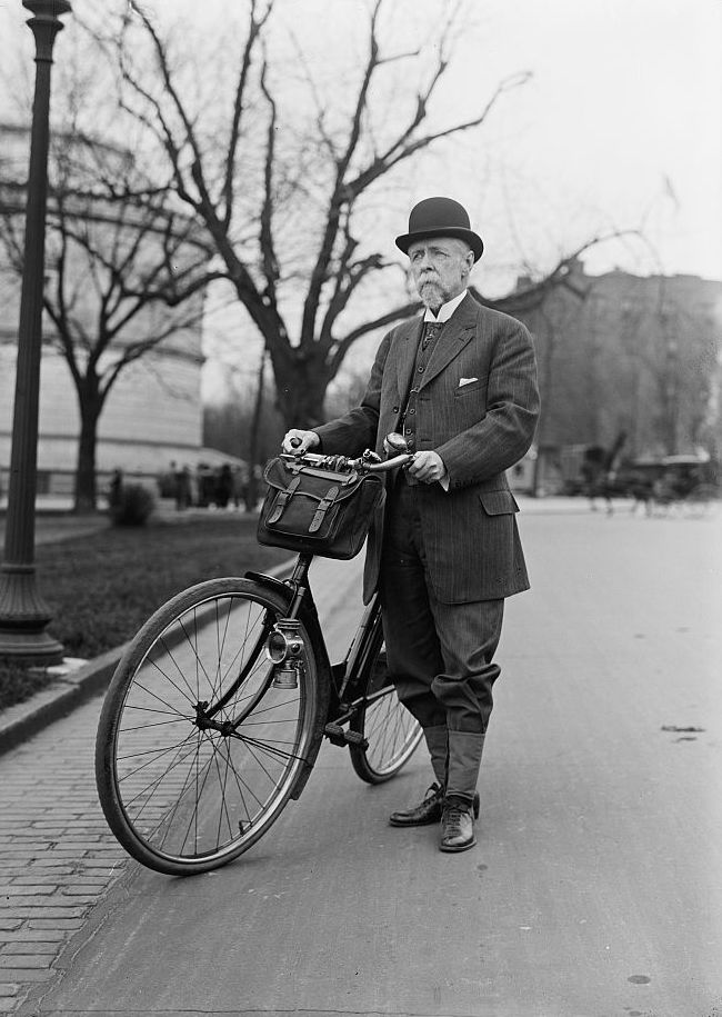 A photograph of Alvey Augustus Adee using 1 negative : glass ; 5 x 7 in. or smaller.